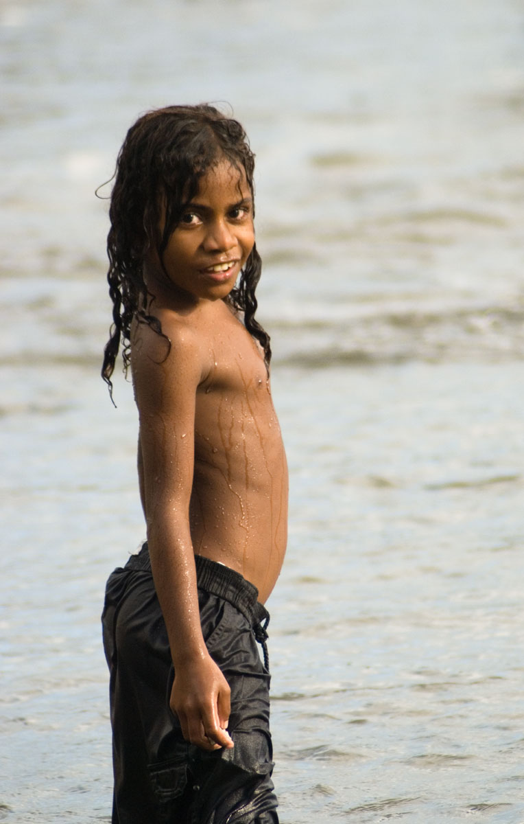 Vanuatu is at the crossroads between Polynesian and Melanesian migration, and its population often demonstrate stunning combinations of their respective attributes.